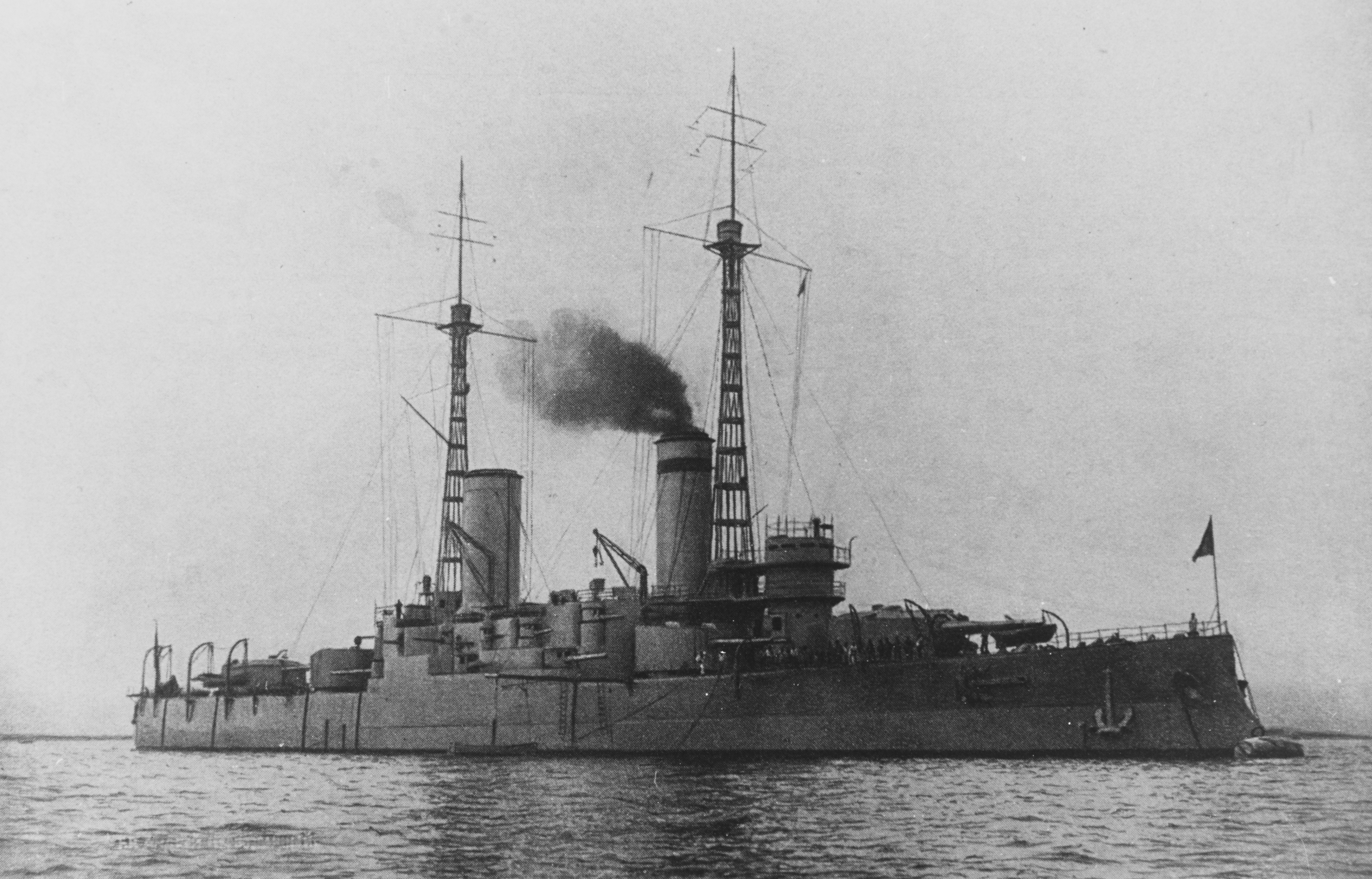 Russian battleship Andrei Pervozanny